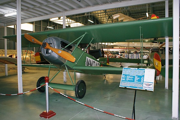 Fokker C-III of AE 4/10.